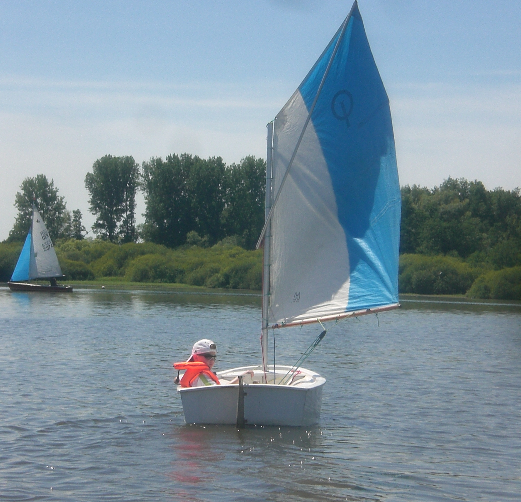 Optimist on the lake Dümmer in Germany